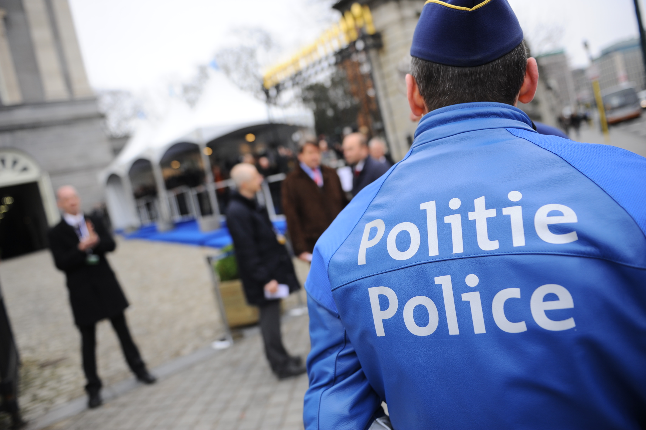 Police officer